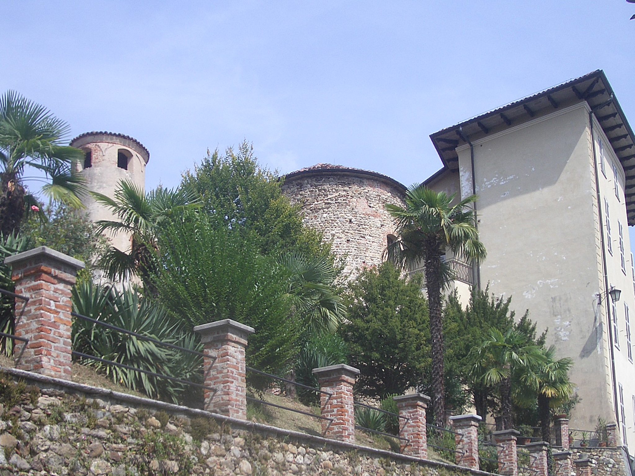 Valperga (TO), the castle